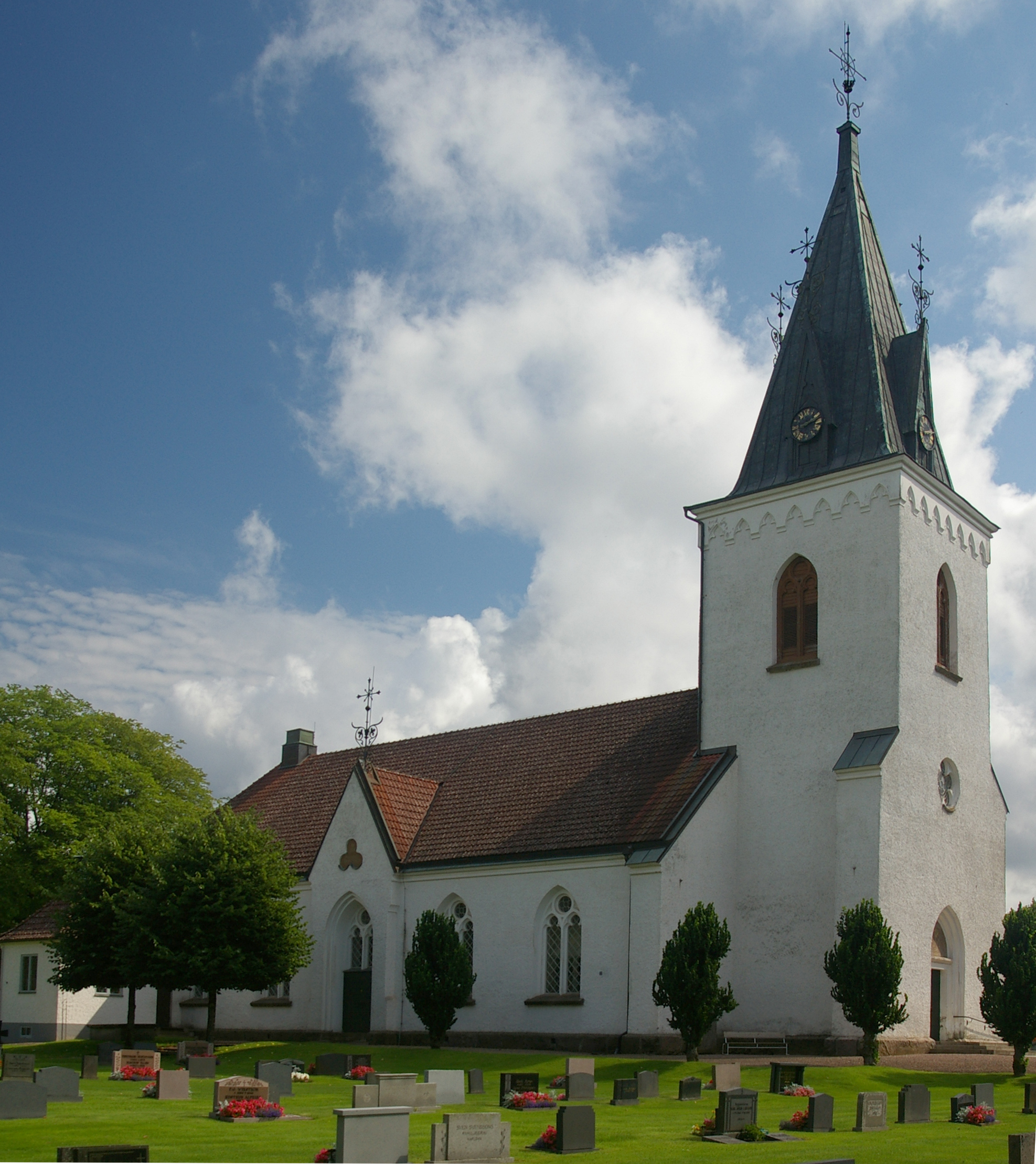 Åsarp-Smula kyrka (Swedish:Church of Åsarp-Smula) in Västergötland, Sweden.